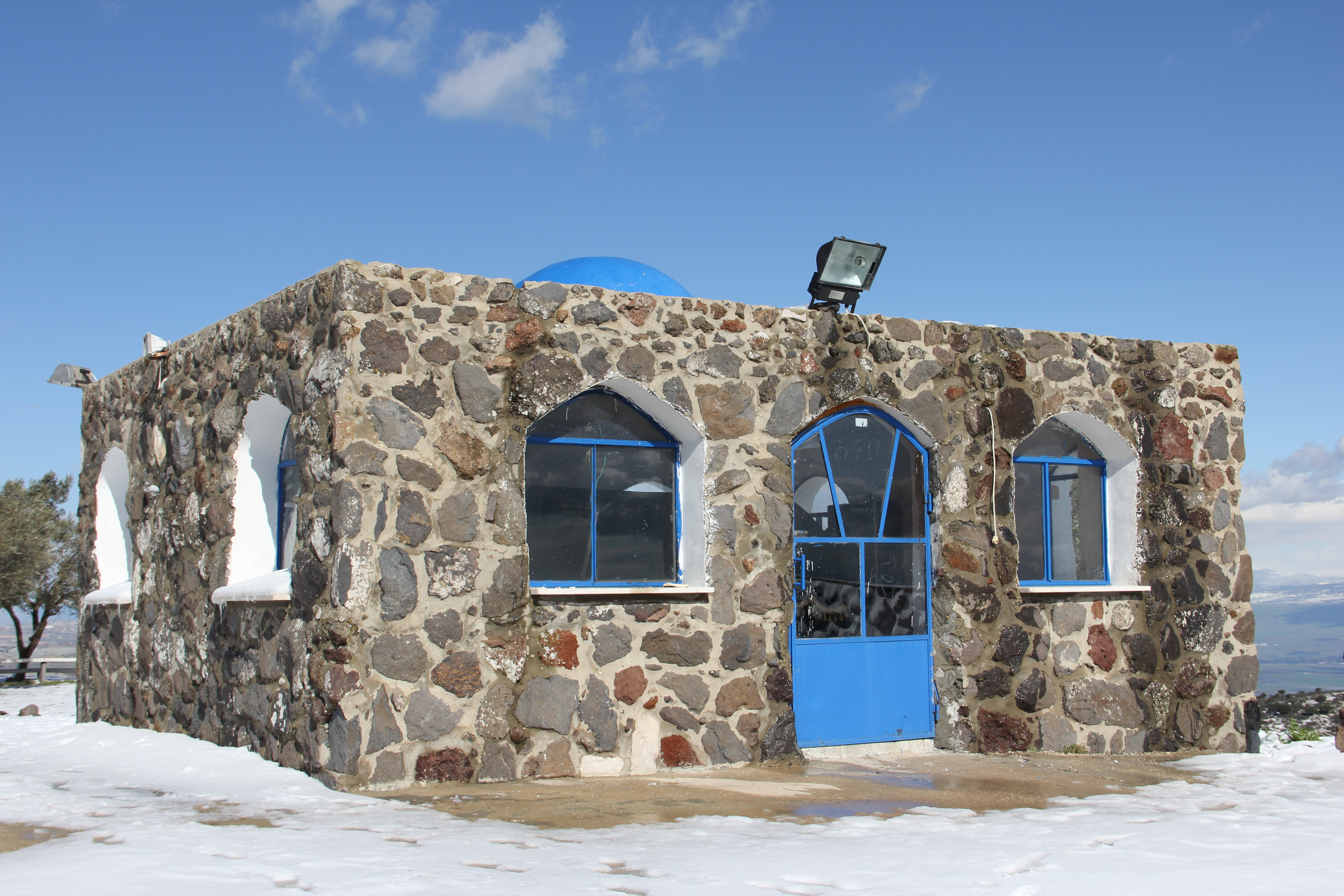 The tomb of Rabbi Yose HaGelili in Dalton, Israel